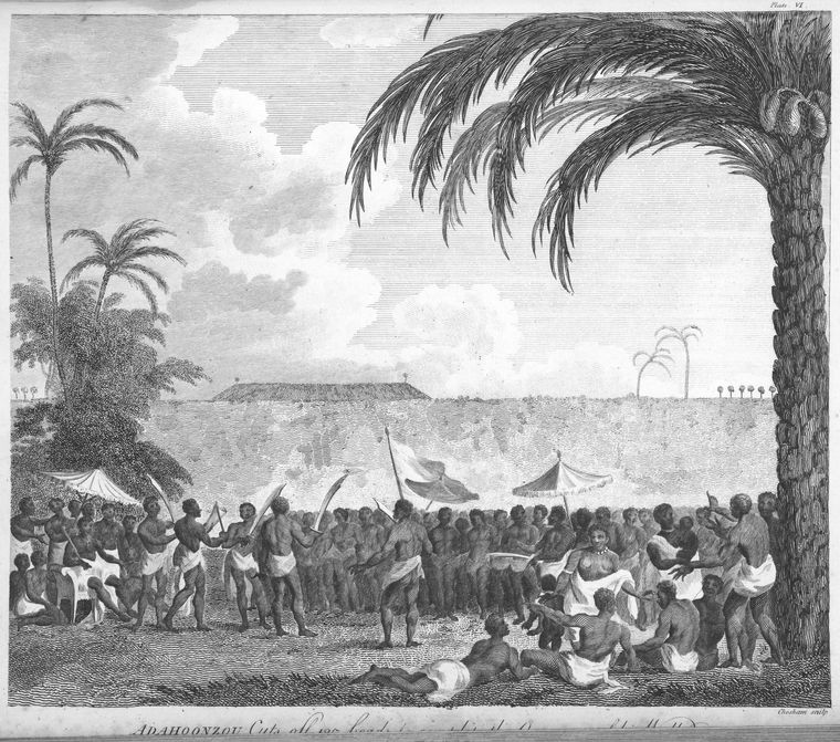 Adahoonzou cuts off 127 heads to complete the ornament of his wall-1793